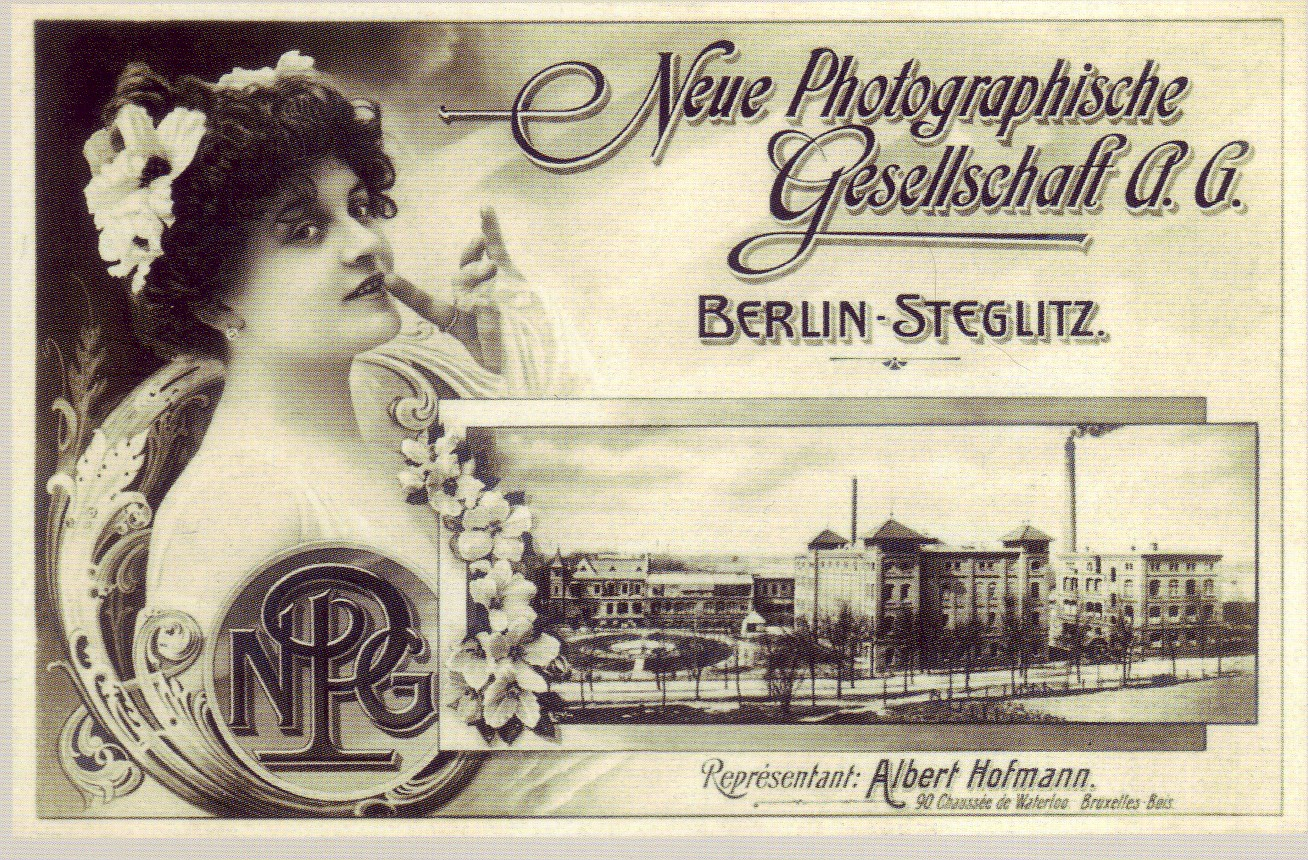 Visiting card of the "Neue Photographische Gesellschaft Steglitz" (New Photogaphic Society Berlin-Steglitz).